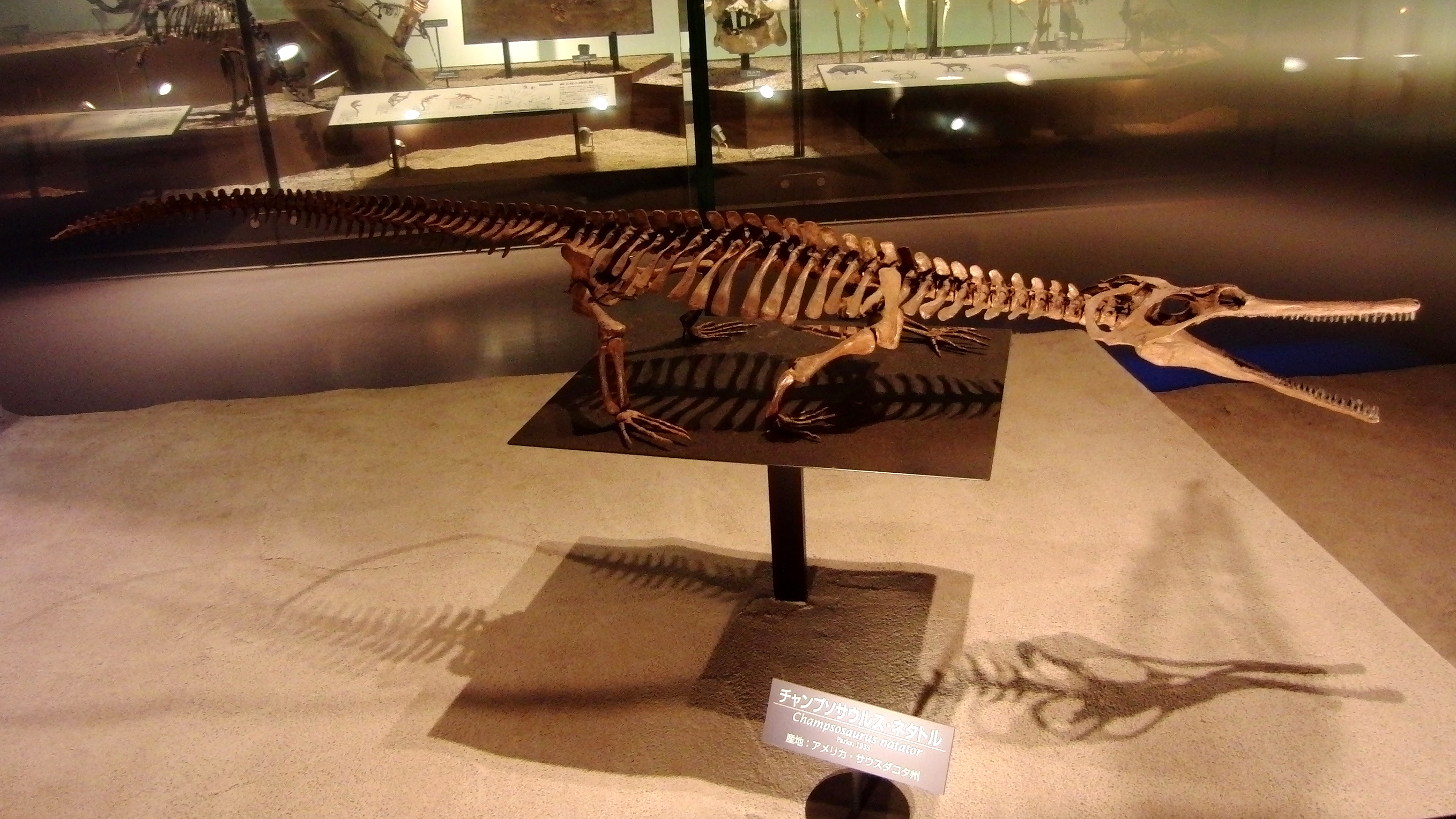 Skeleton of Champsosaurus natator. Exhibit in the National Museum of Nature and Science, Tokyo, Japan.